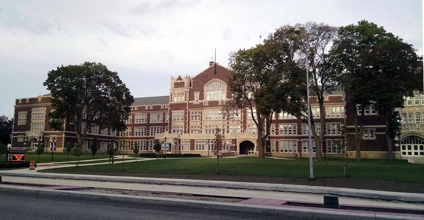 Scott High School pictured after extensive renovation. Object location41° 40′ 08.57″ N, 83° 33′ 14.63″ W